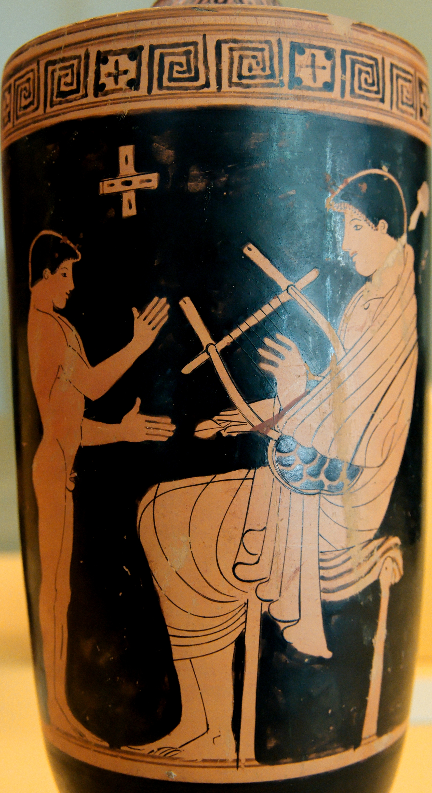 A youth marks with his hands the rythm of the melody played by the music teacher. Side A of an Attic red-figure lekythos.